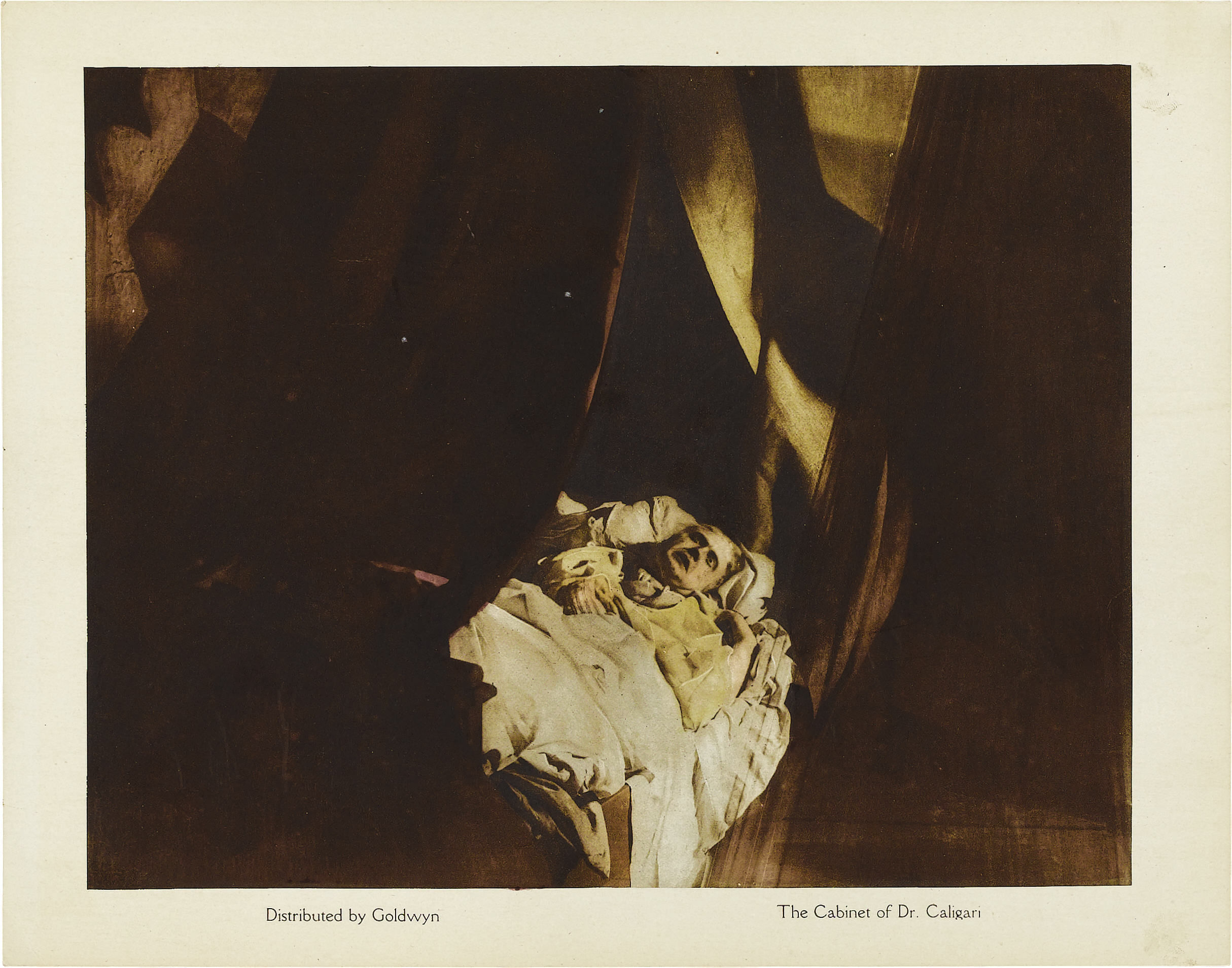 Lobby card